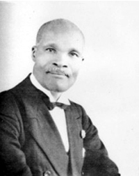 Samuel Edward Krune Mqhayi, poet, author